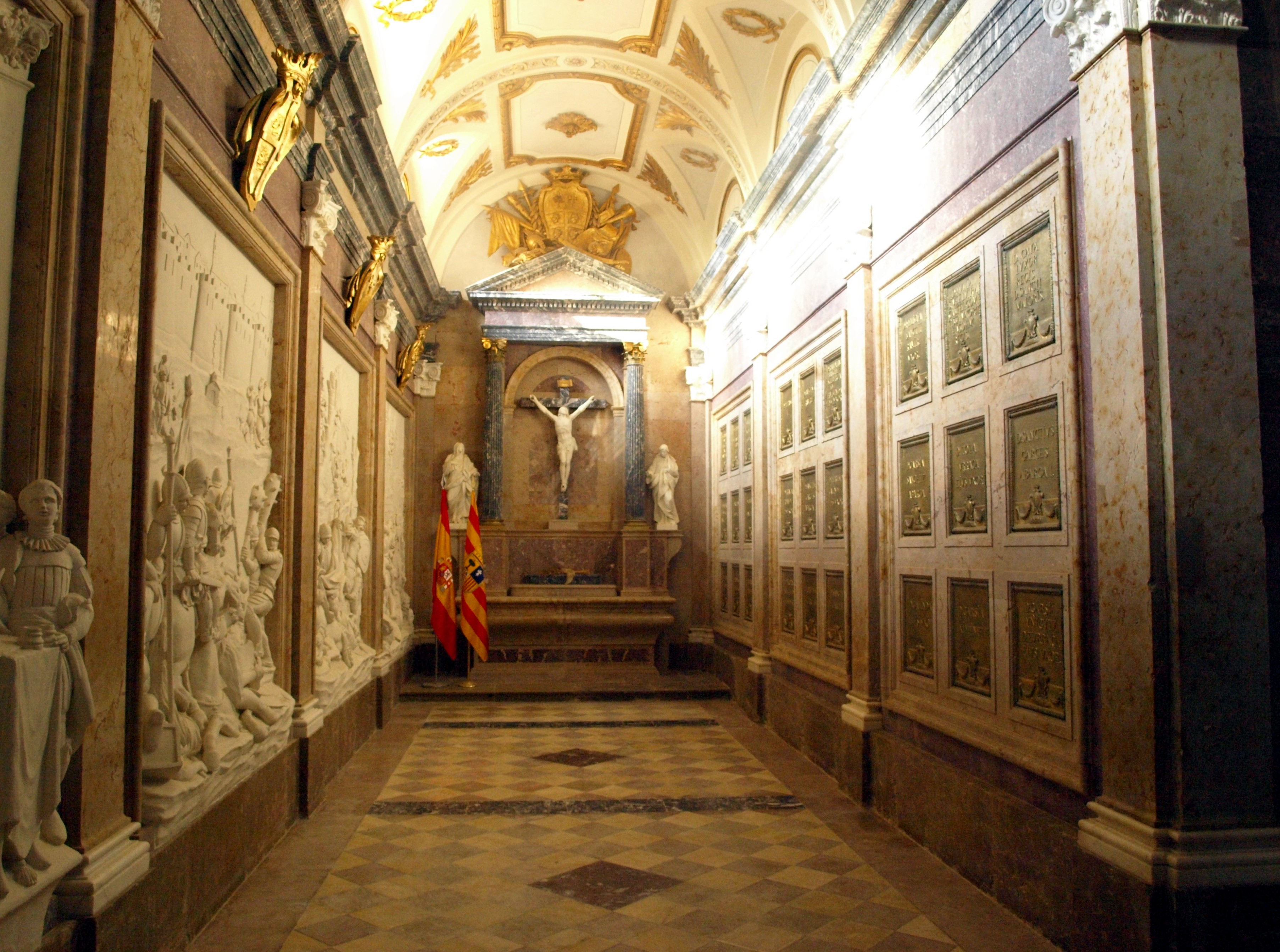 Real Pantheon of San Juan de la Peña (Aragon, Spain)